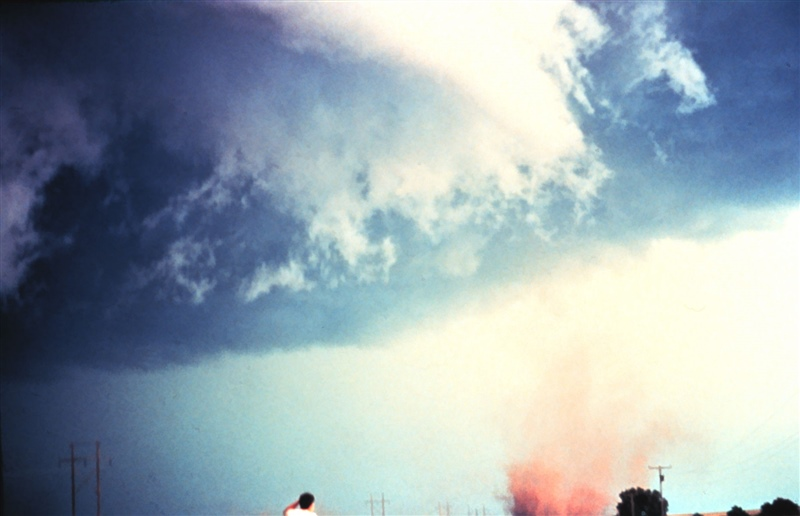 A photograph taken by storm chaser Jim Leonard, working as a NSSL field researcher, of a tornado occurring with debris swirl at surface but condensation funnel. An anticyclonic circulation was seen in this tornado occurring west of Alva, Oklahoma on 6 June 1975.